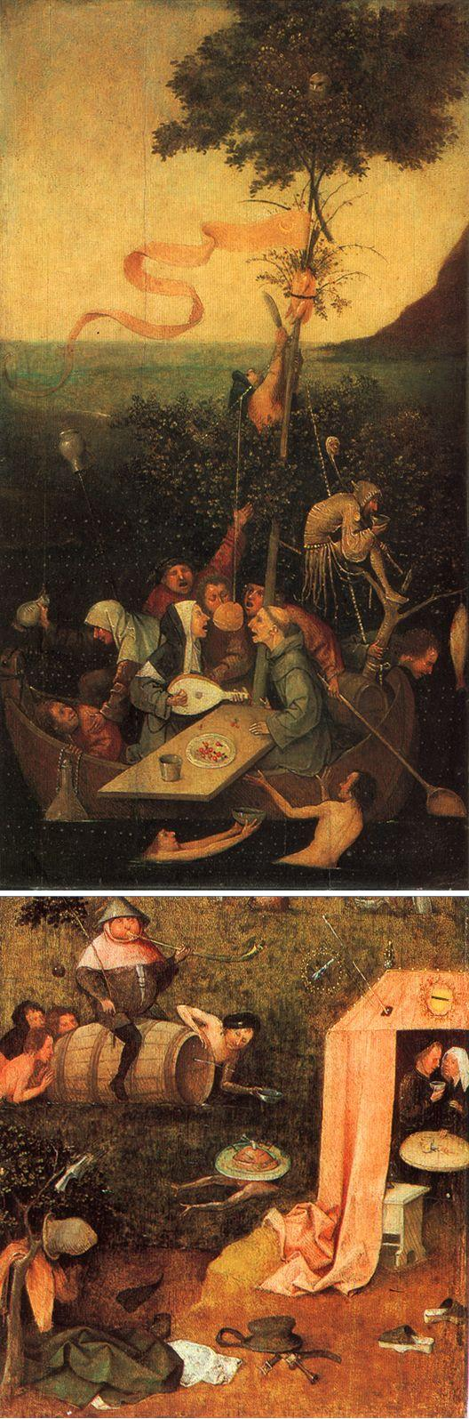 Reconstruction of the left inner wing of a lost triprych by Jheronimus Bosch, consisting of the Ship of Fools (top) and the Allegory of Intemperance (bottom).